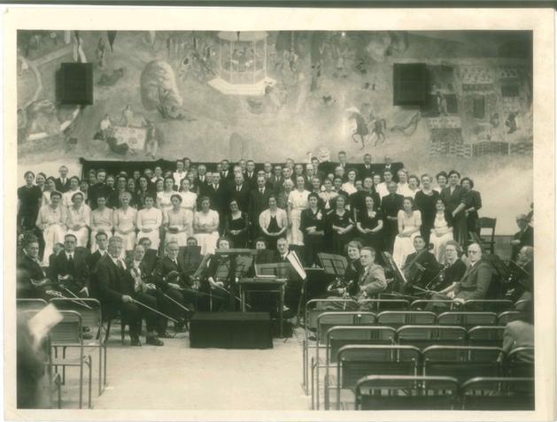 Kingston Orpheus Choir with an orchestra, (undated believed 1950's), taken at Coronation Baths, Denmark Road, Kingston upon Thames, Surrey. The picture was probably taken at a rehearsal. The swimming pool was covered over and used as a concert venue.